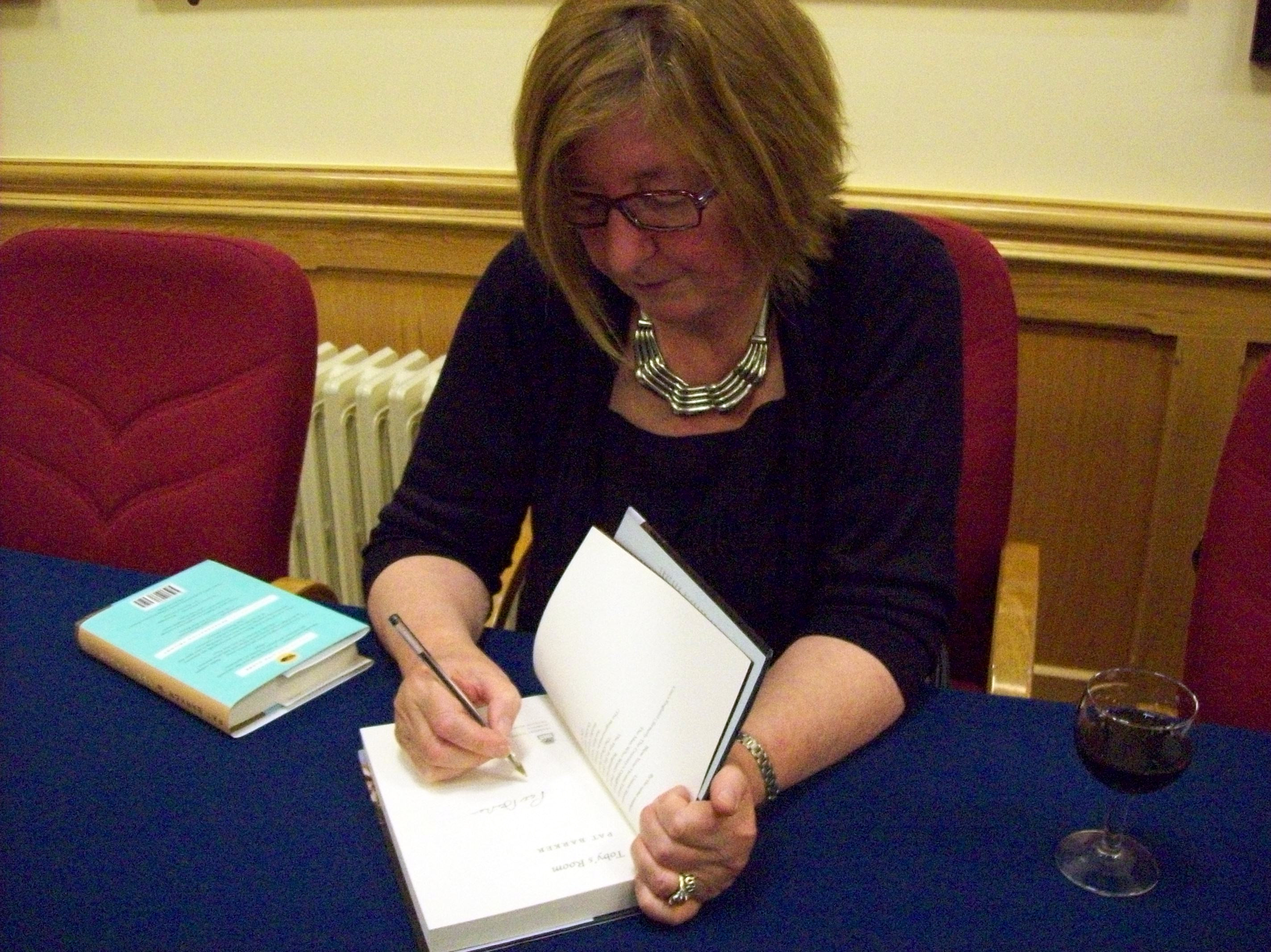 Durham Book Festival October 2012 and here Pat Barker is singning my copy of her very popular: TOBY'S ROOM, of the various festival events I have attended in Durham its Pat Barker and Roger McGough who had the longest queue for book- signing. I hope its not too much of a chore for them for the chance of exchanging a few words with a favourite author is a real pleasure and a highlight for me